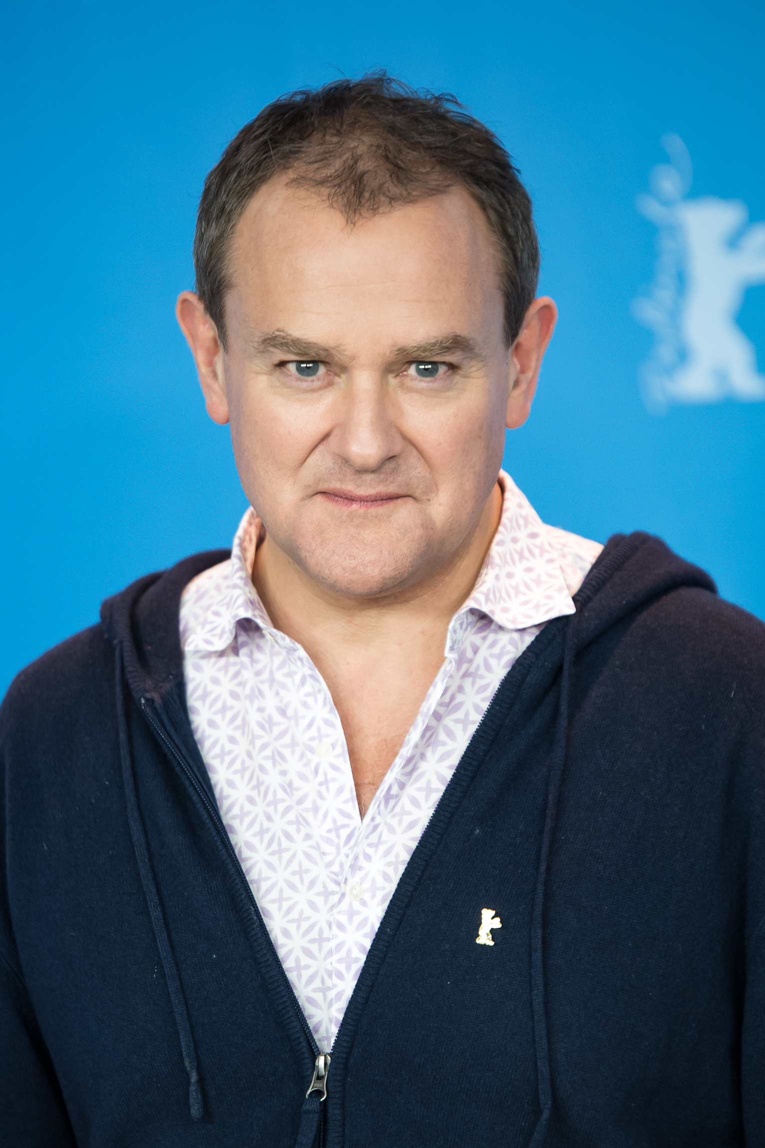 Hugh Bonneville presenting the movie Viceroy's House at the Berlinale 2017